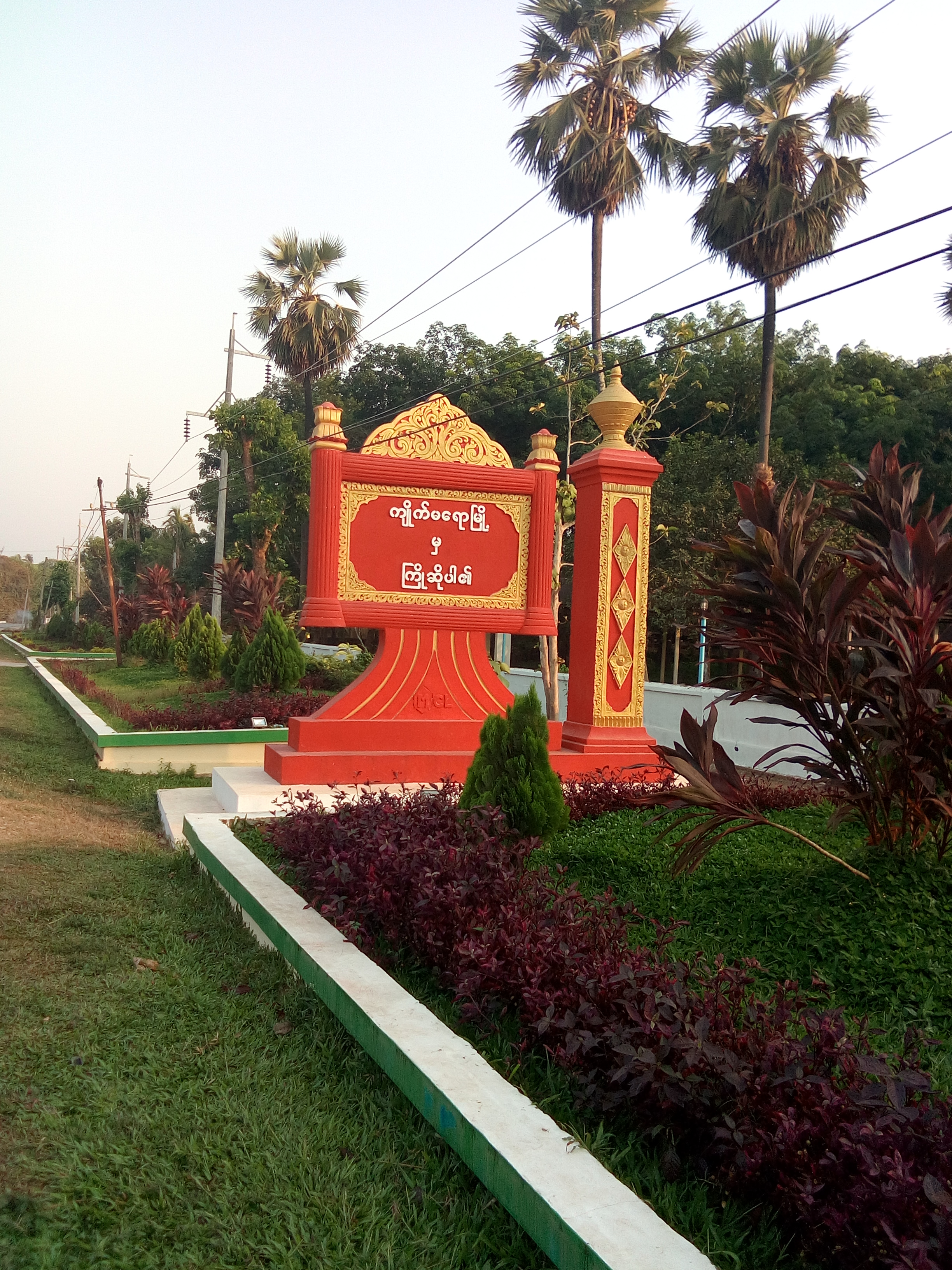 Kyaikmaraw welcome signboard